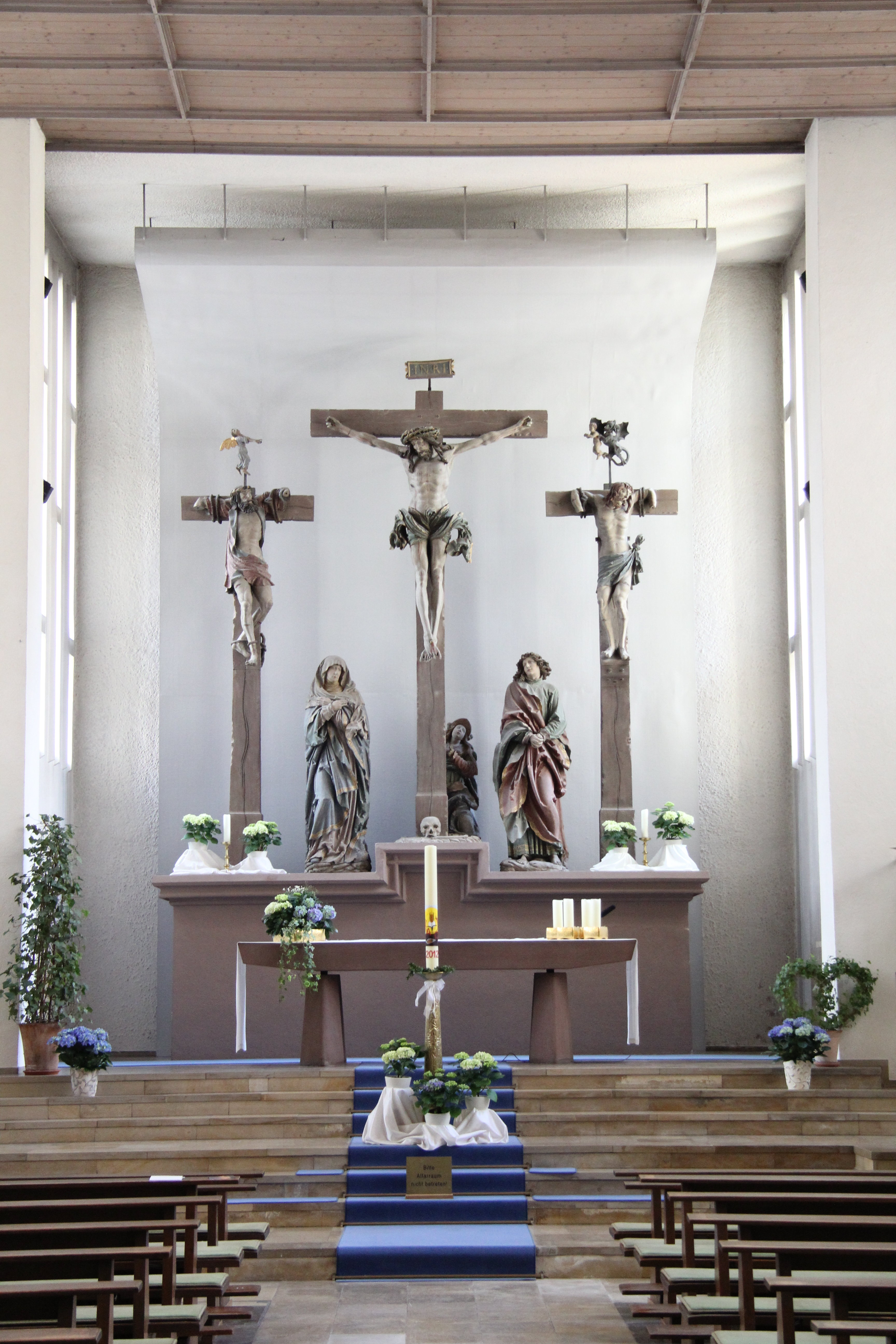 Crucifixion group by Hans Backoffen, 1519, in the pilgrimage chapel in Hessenthal, Bavaria, Germany